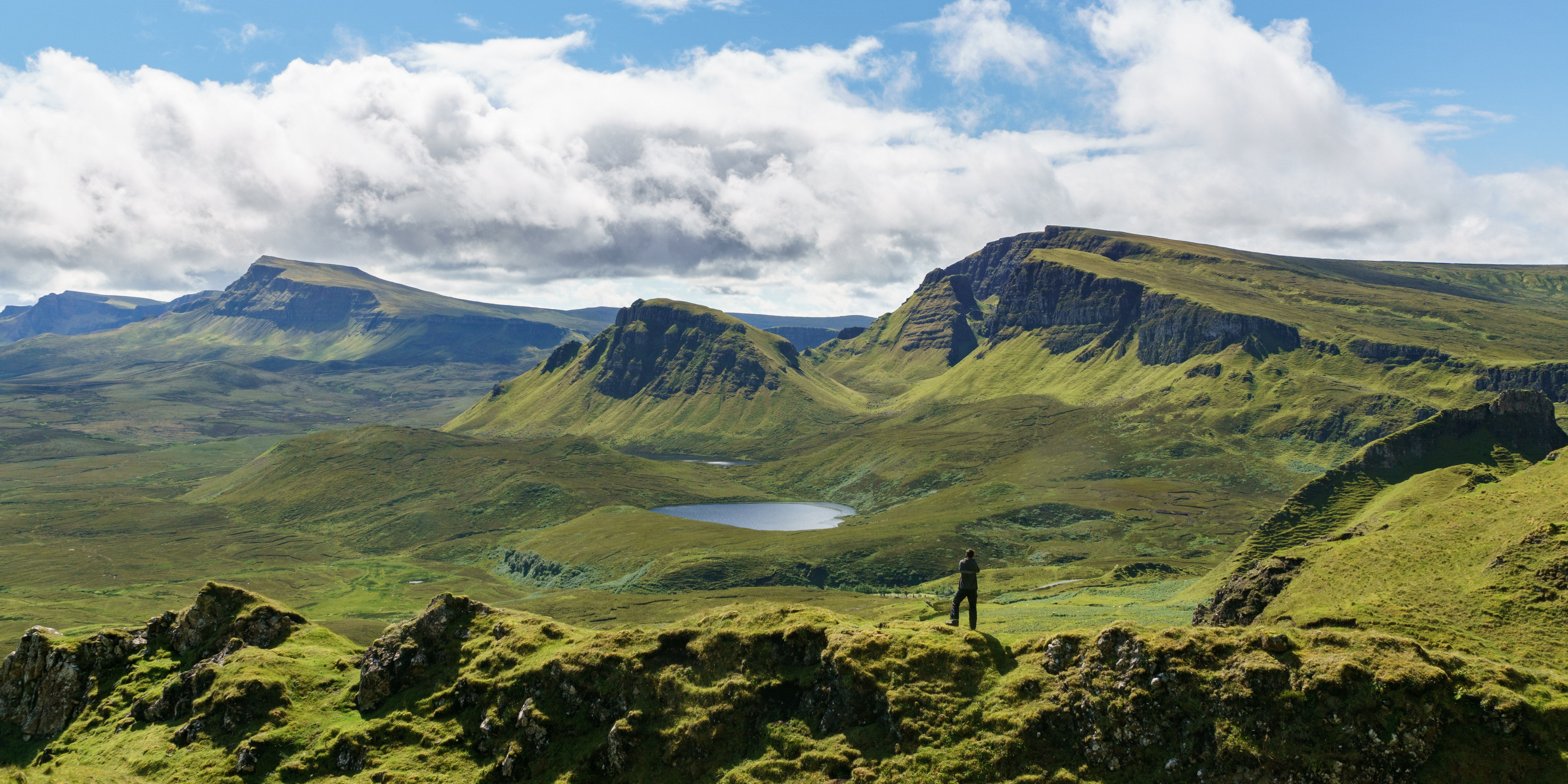 Looking South over the Quiraing on the Isle of Skye.